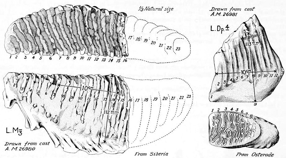 Lectotype molars of Mammuthus primigenius, drawn after casts in the American Museum.